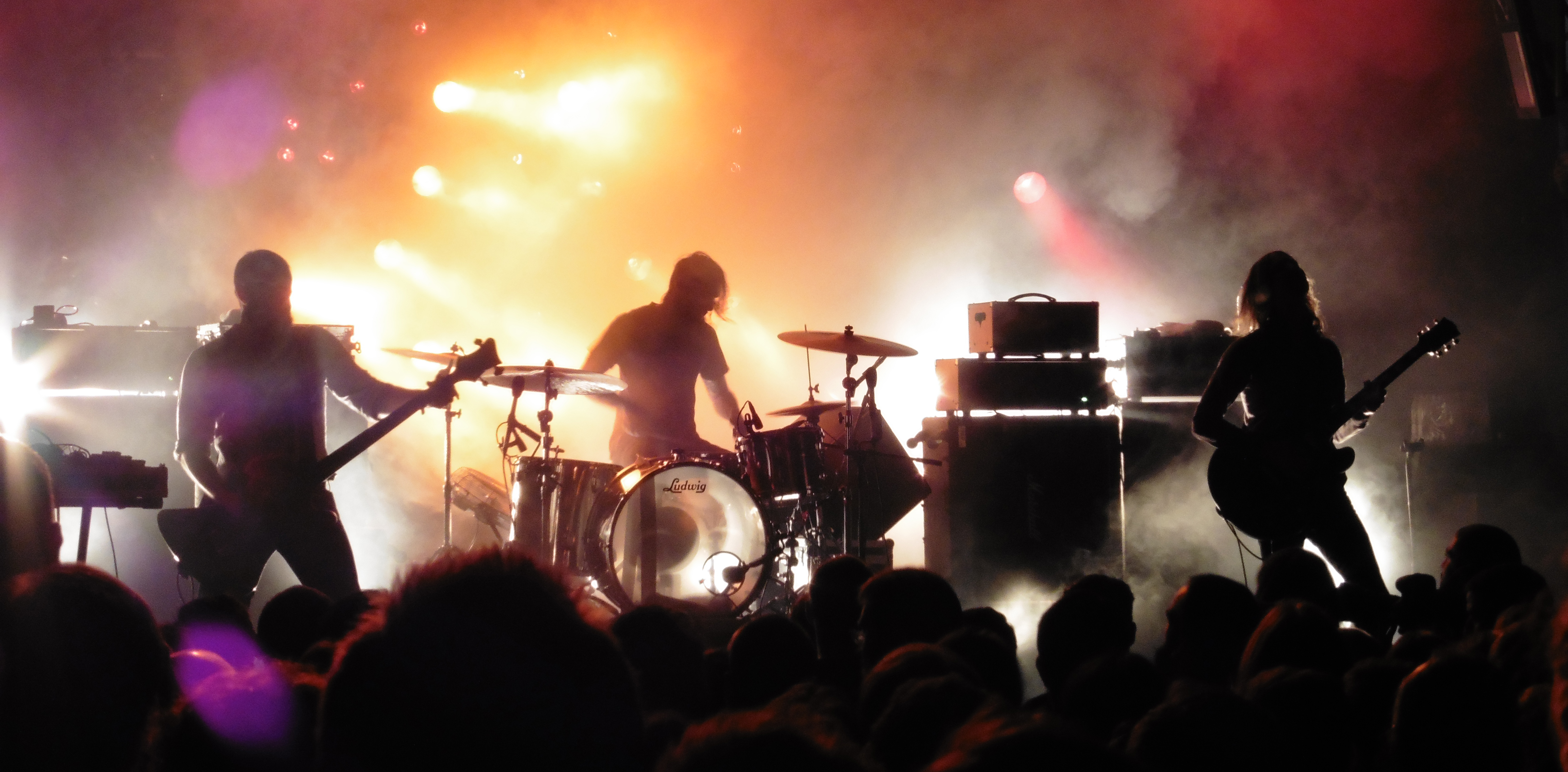 Russian Circles - Madrid - 15 abril 2015 2